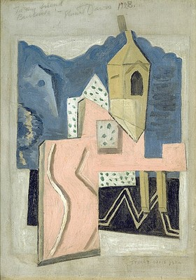 Photograph of Steeple and Street, 1922, oil and pencil on canvasboard, by Stuart Davis in the public domain. Hirshhorn Museum and Sculpture Garden.